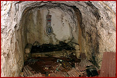 Douglas Cave inside - Douglas Path runs through the nature reserve at the top of the Rock of Gibraltar